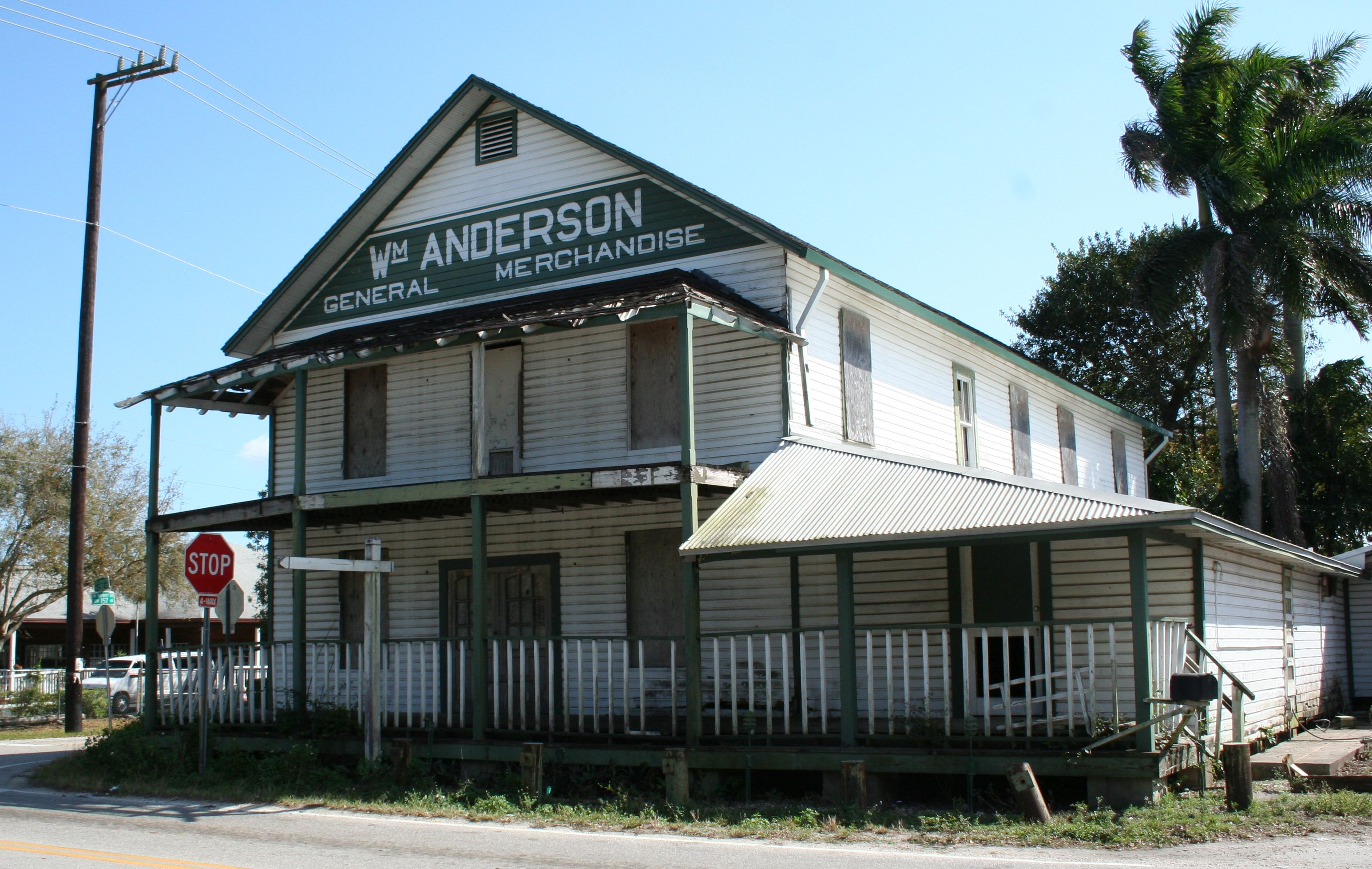 William Anderson General Merchandise Store, a historic and vacant wood-frame structure in Redland, Florida